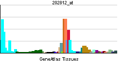 Gene expression pattern of the GAA gene.